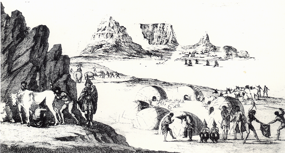 A Khoikhoi settlement in Table Bay, as depicted in an engraving in Abraham Bogaert's Historische Reizen, 1711. Air is being blown through the anus of the cow on the left to aid the milking process.